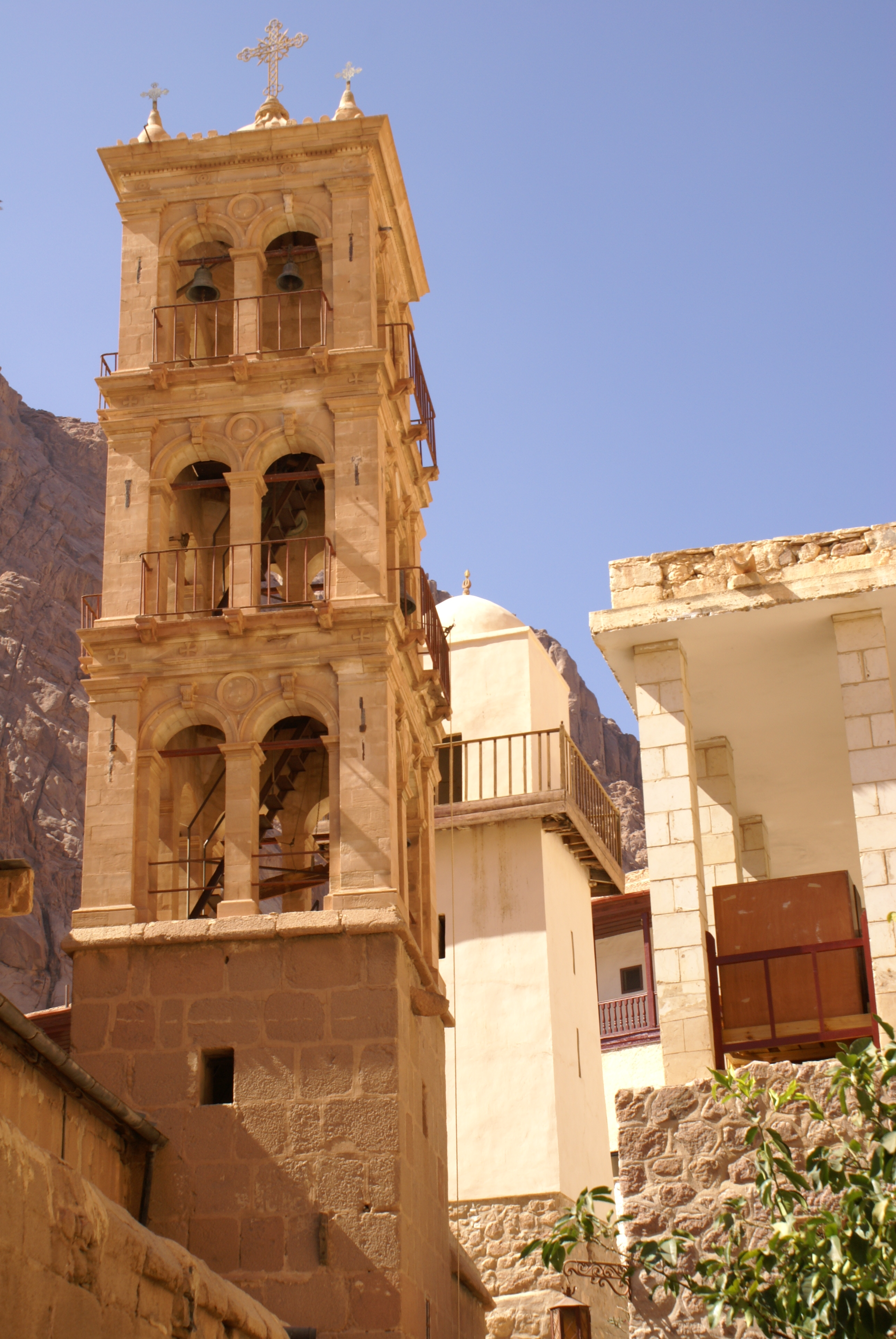 The main church tower of Saint Catherine's Monastery at the base of Mount Sinai in Egypt. Immediately behind it is a Minaret, the tower of a muslim Mosque a curious feature for a Christian monastery. The mosque with minaret was built in the 11th century after the caliph al-Hakim threatened to destroy the monastery. However, the mosque has never been used, because it is not correctly oriented towards Mecca. Also, the minaret is not built as tall as the church tower.